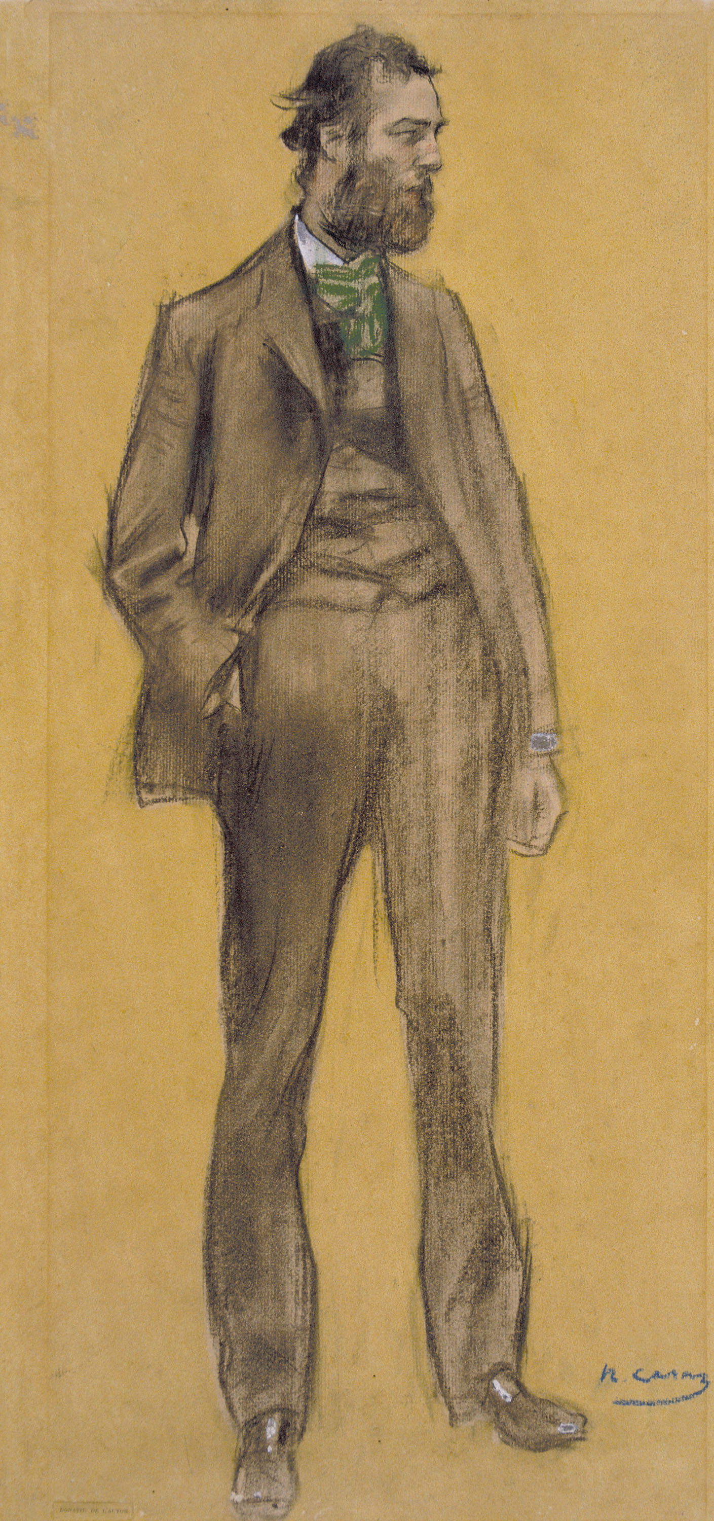 Portrait by Ramon Casas conserved at MNAC in Barcelona.